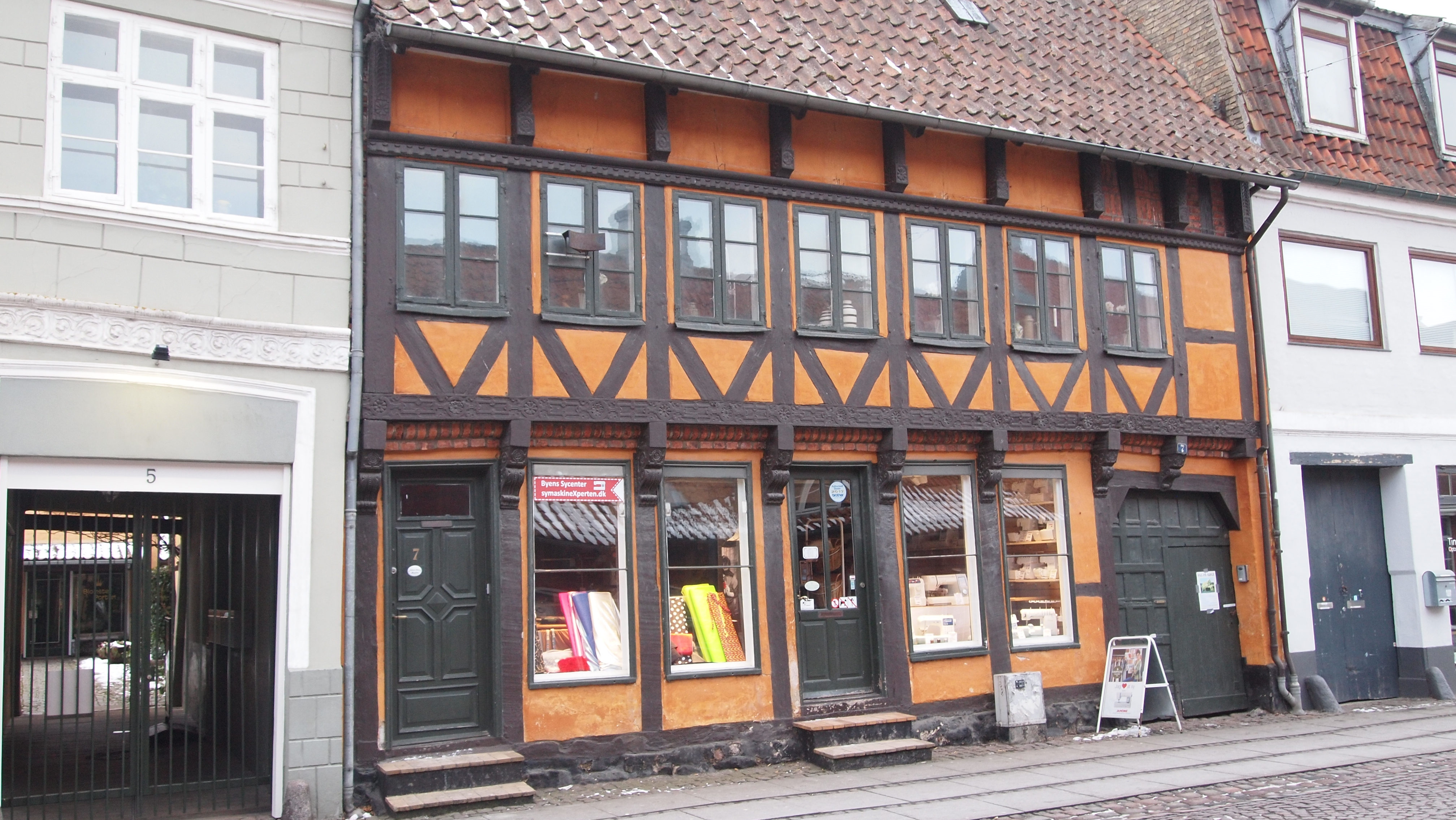 Listed timberframed building, Garvergården, in Køge. Denmark.